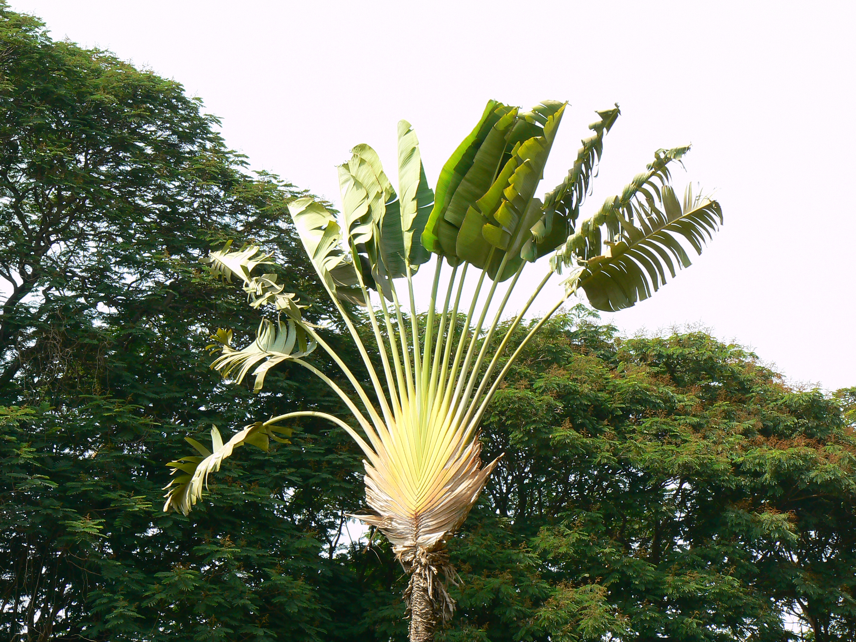 Common name: Traveller's palm Botanical name: Ravenala madagascariensis - [ (ra-VEN-ah-la) from the Malagasy name for the plant Ravinala, meaning leaves of the forest; (mad-uh-gas-KAR-ee-EN-sis) of or from Madagascar ] Family: Strelitziaceae (bird-of-paradise family) - [ (stre-LITZ-ee-uh-see-ay) named after one of its three genera, Strelitzia ] Origin: Madagascar The traveler's palm is one of nature's most distinctive and remarkable plants. Although this plant is called a palm; it is not a true palm. It grows up, to 40" tall, while the big banana-like leaves can grow up to 15" long. The leaves are arranged in a fan-shaped manner; it has a rather short, palm like, trunk. The small white flowers are held in bracts. In these bracts and leaf folds, rainwater is collected. The fruits are brown while the seeds are blue. The traveler's palm tolerates sandy and clayey soils with good drainage, and thrives in rich, moist and loamy soils. Light: The traveler's palm thrives and grows best in full sun but also grows well in part sun/shade. Small plants should be shaded until well established. The traveler's palm requires a lot of light, especially when grown indoors. Moisture: Soils should be moist and have good drainage to yield optimal growth. Hardiness: USDA Zones 10 - 11. Propagation: The traveler's palm may be propagated by seeds or by division and replanting of the attractive clumps (or suckers) formed at the base of the plant. Courtesy: - TopTropicals - Dave's Garden - From Wikipedia, the free encyclopedia Note: Information has not been verified and may not be reliable; please check for any inaccuracy.